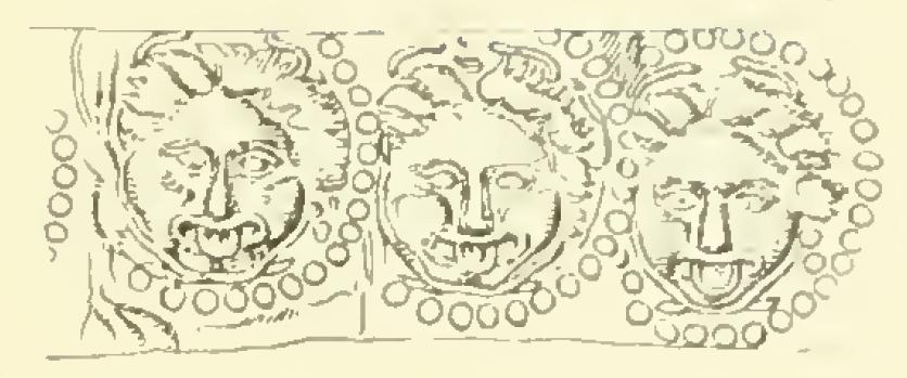 Diadem